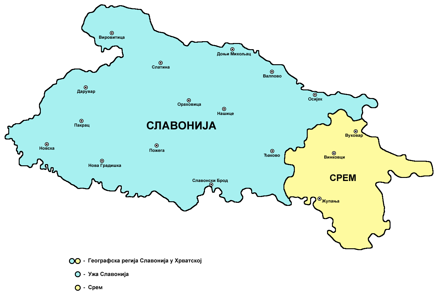 Geographical region of Slavonia in Croatia.